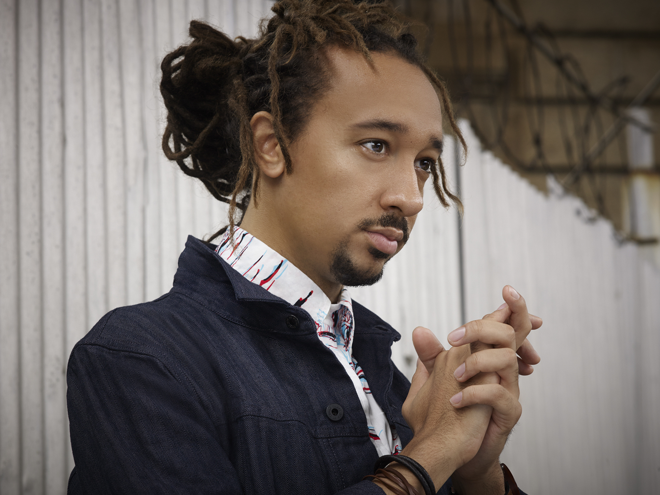 photography by Keith Major Directed by Difenni Shi